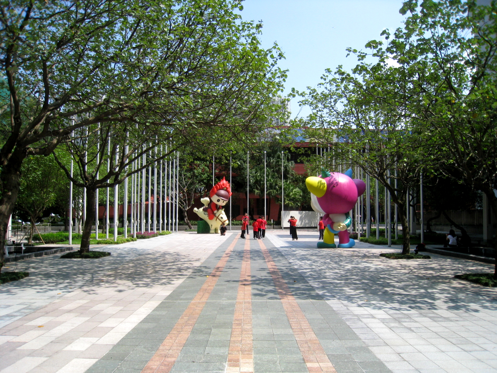 City Art Square Area 2 Overview 城市藝坊